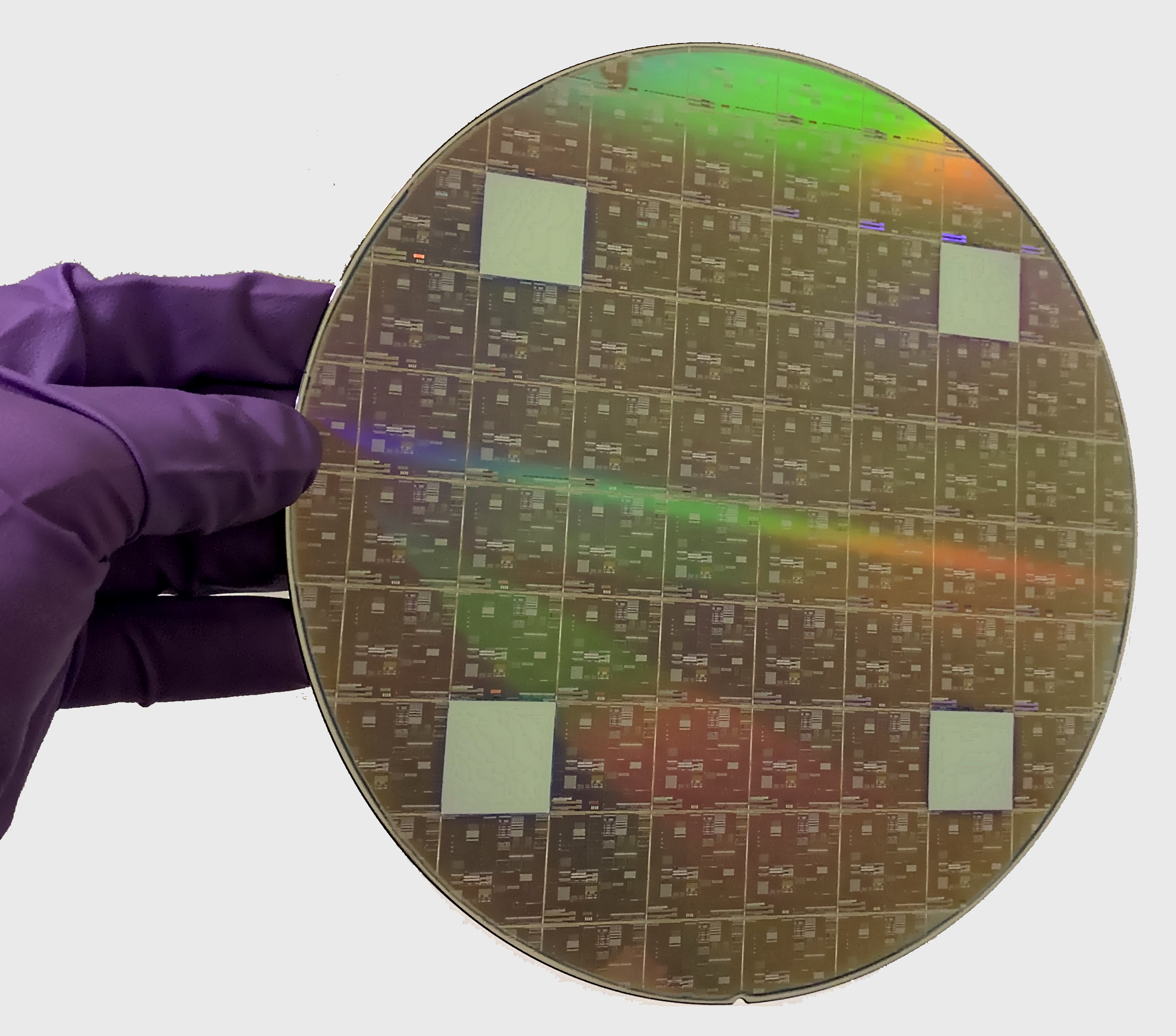 Processed 200 mm Si Wafer